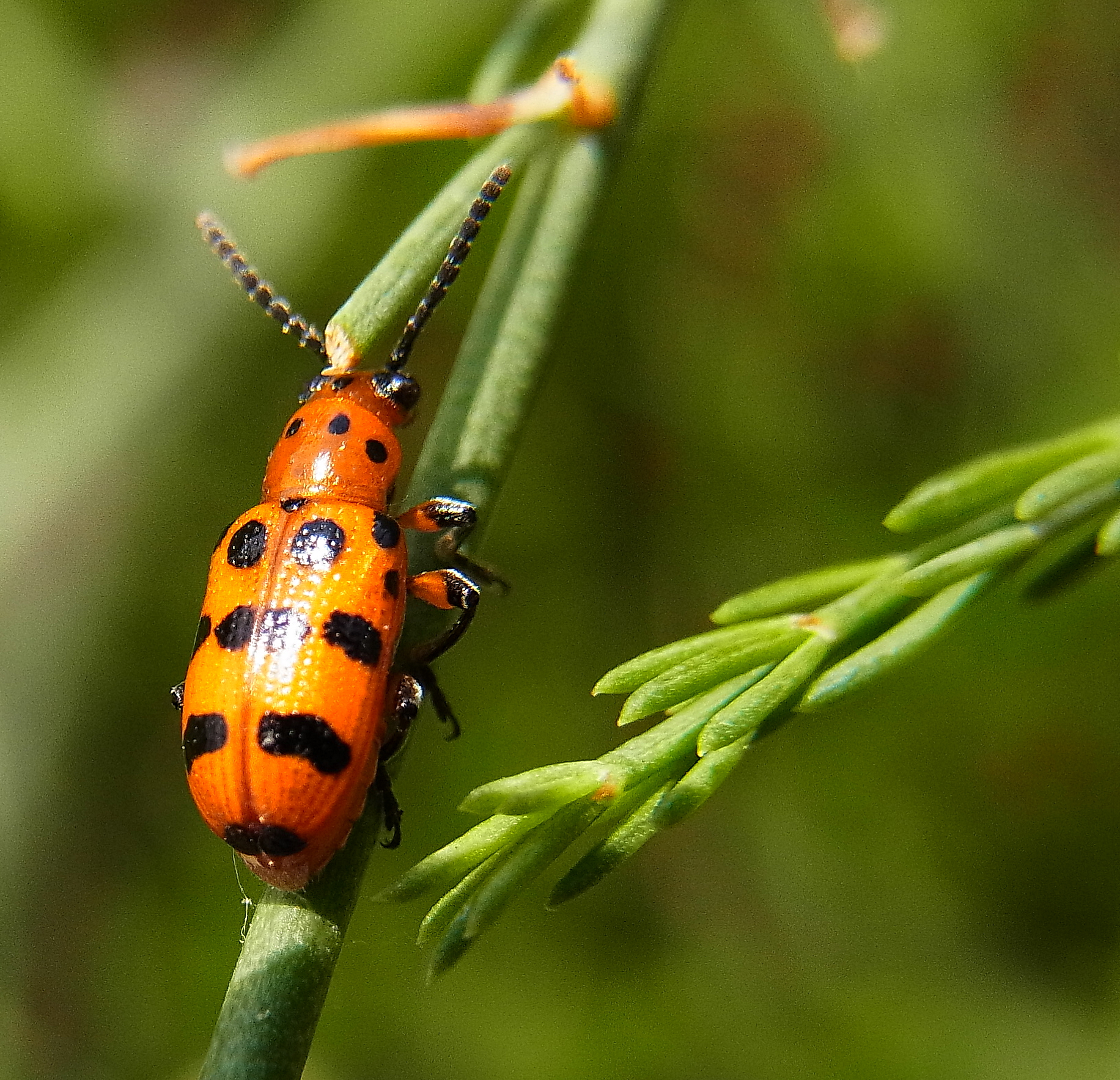 Crioceris quatuordecimpunctata from Southern Hungary near Kelebia on Asparagus at 2012-05-26